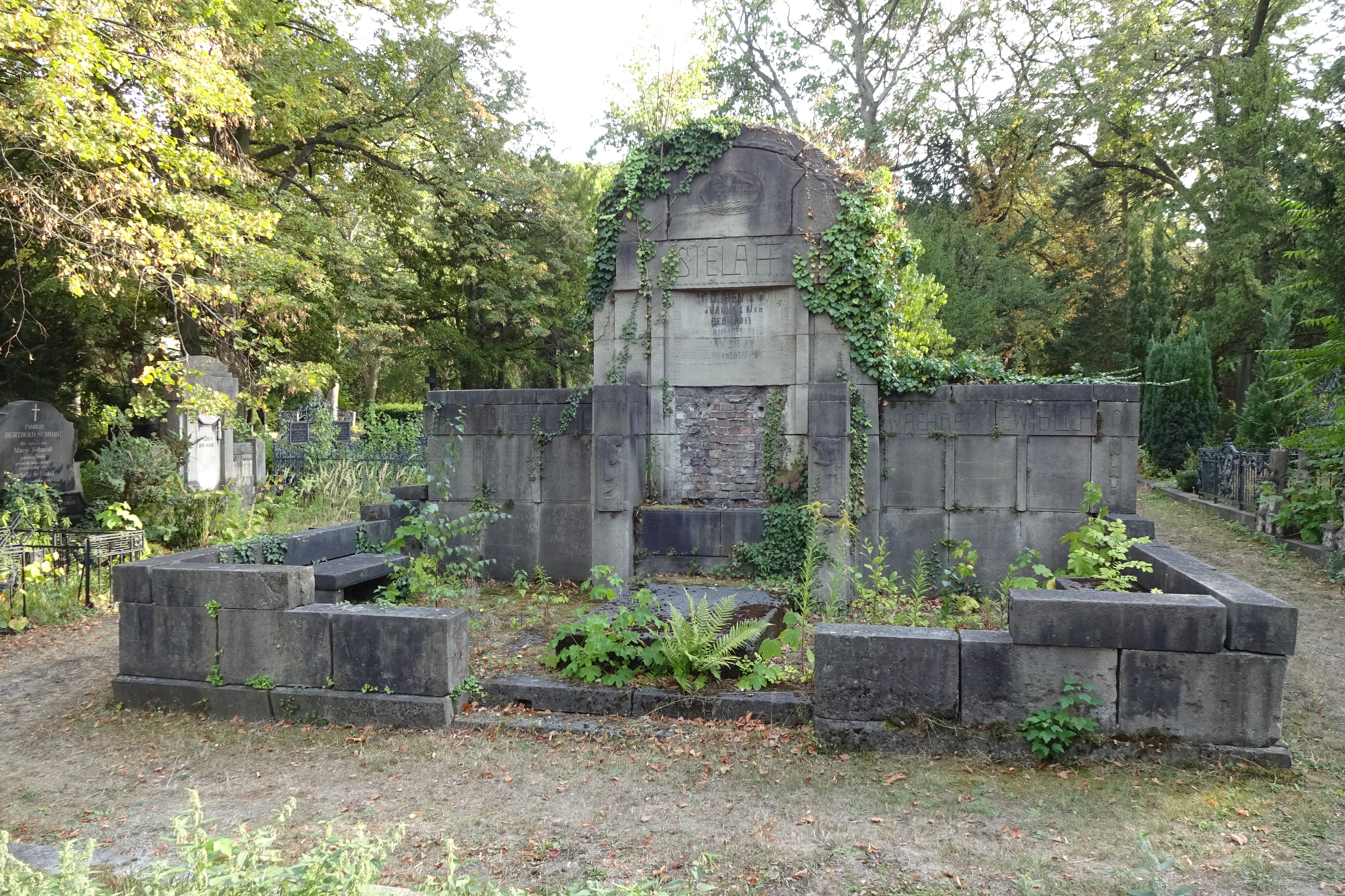 Grave of German entrepreneur Max Sielaff and his family in Alter St.-Jacobi-Friedhof in Berlin-Neukölln